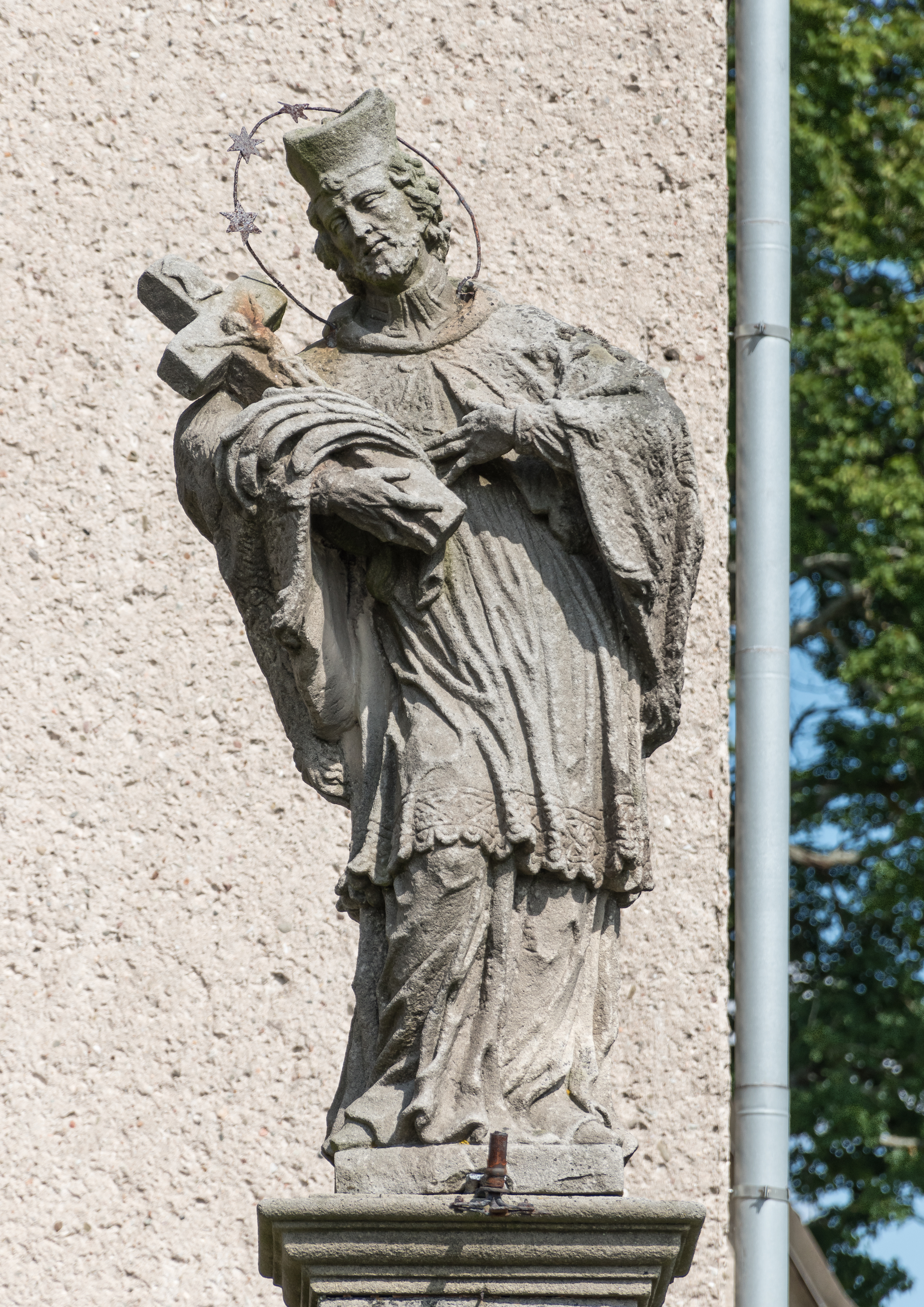 John of Nepomuk sculpture in Mostowice